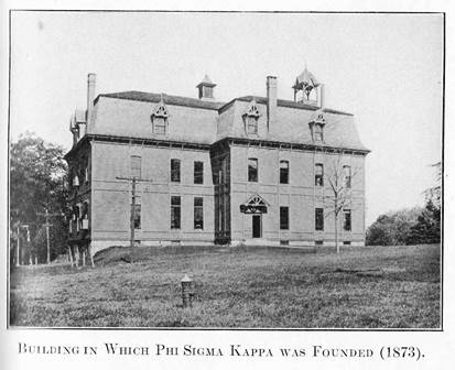 Old North Hall at UMass Amherst was the site of the founding of Phi Sigma Kappa in 1873. The building was razed some decades later, and is now the site of Machmer Hall on the campus. A plaque at the entrance marks the site of the original building. This photo dates from circa 1875. For the Phi Sigma Kappa page.